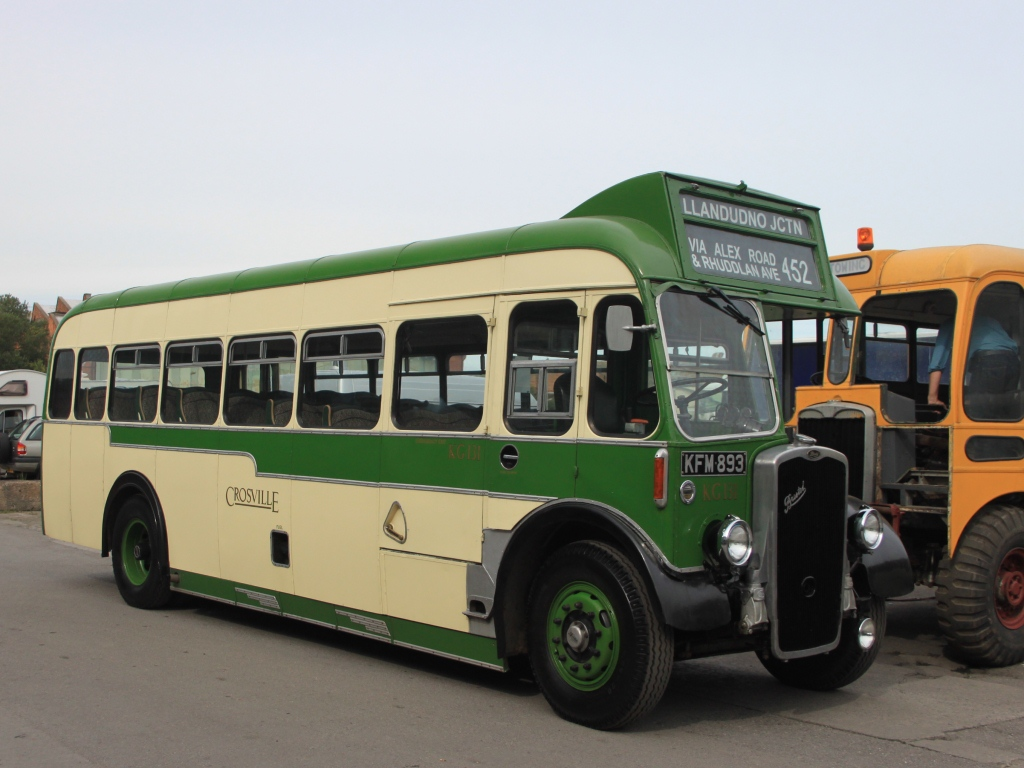 This Bristol L (KFM 893) was originally used by the old Crosville Motor Services in North wales, their number KG131. It is now part of the heritage fleet of the modern Crosville Motor Services in Somerset and is seen parked outside their depot in Weston-super-Mare.